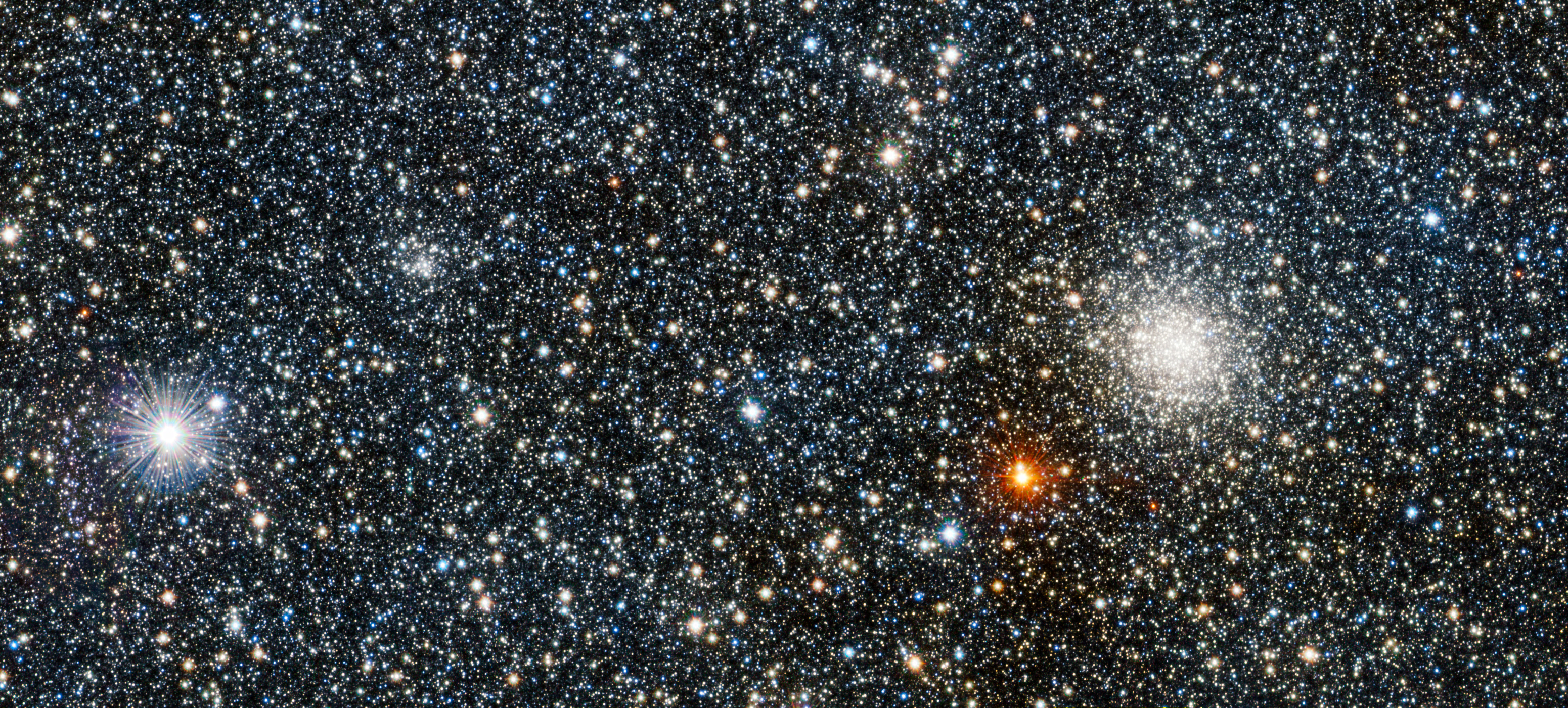 This image from VISTA is a tiny part of the VISTA Variables in the Via Lactea (VVV) survey that is systematically studying the central parts of the Milky Way in infrared light. On the right lies the globular star cluster UKS 1 and on the left lies a much less conspicuous new discovery, VVV CL001 — a previously unknown globular, one of just 160 known globular clusters in the Milky Way at the time of writing. The new globular appears as a faint grouping of stars about 25% of the width of the image from the left edge, and about 60% of the way from bottom to top.